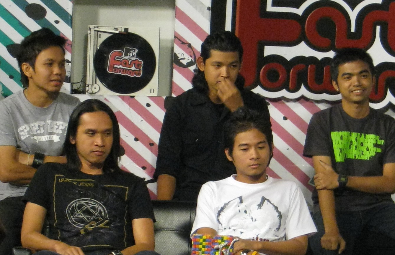 Kluaythai at MTV Fast forward